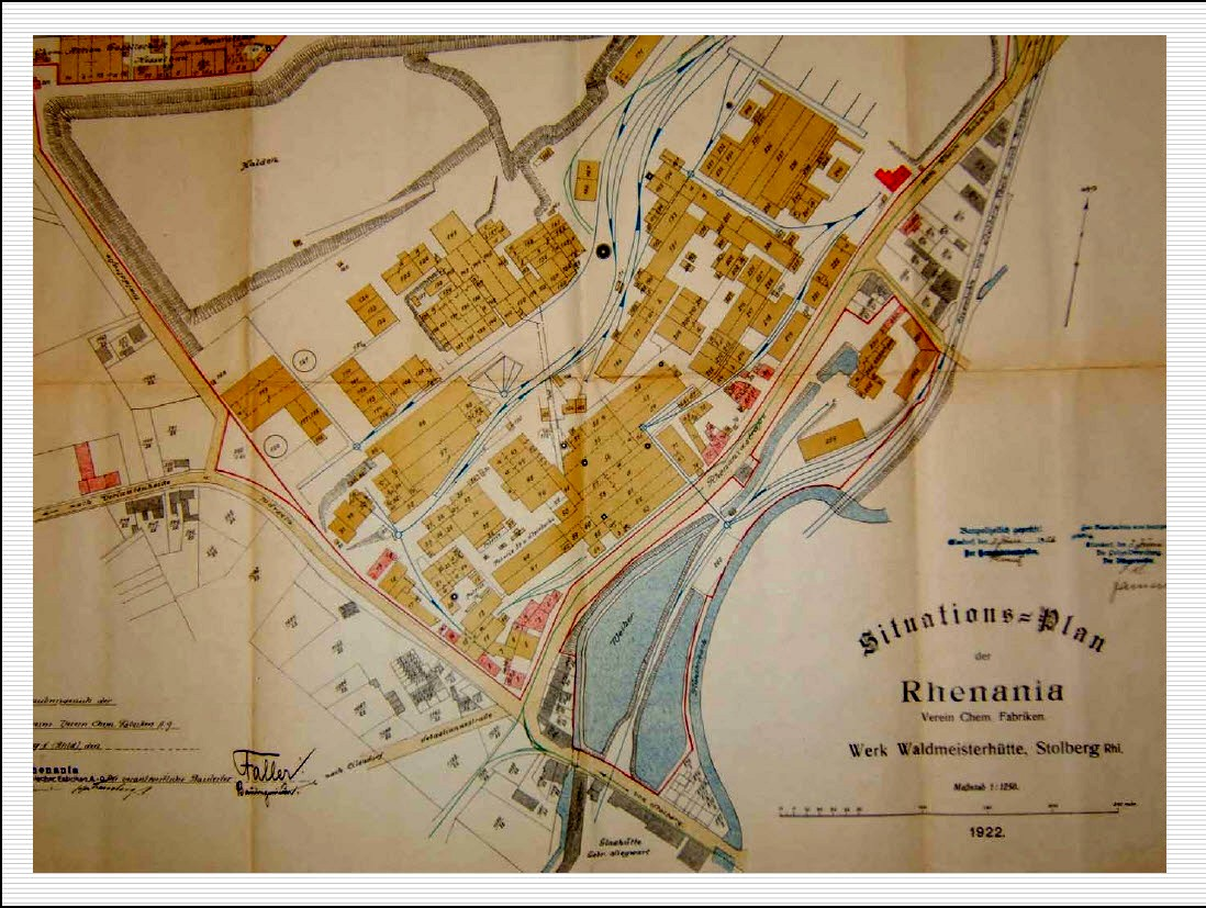 factory premises, Rhenania Werk Waldmeisterhütte, 1922